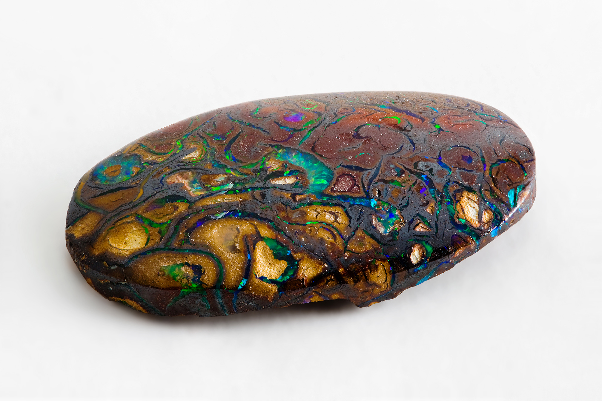 Opal from Yowah, Queensland, Australia. Length: about 20mm.